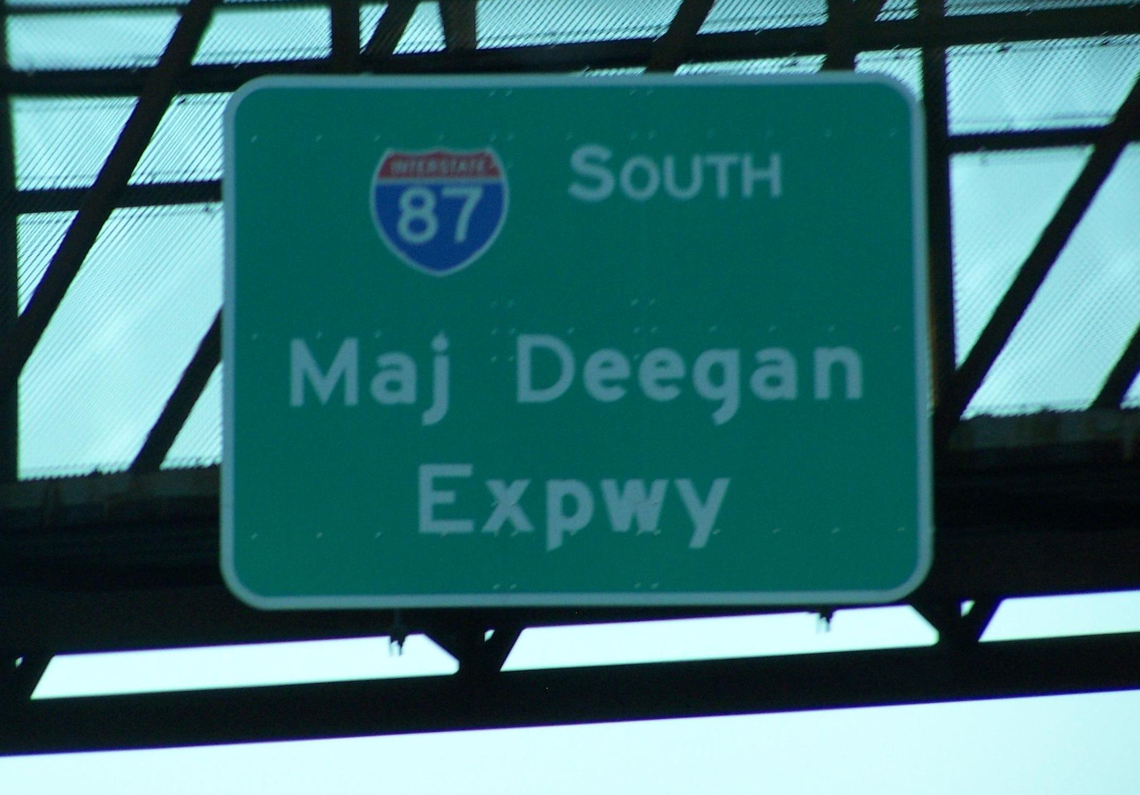 Guide sign for the Major Deegan Expressway, part of Interstate 87.